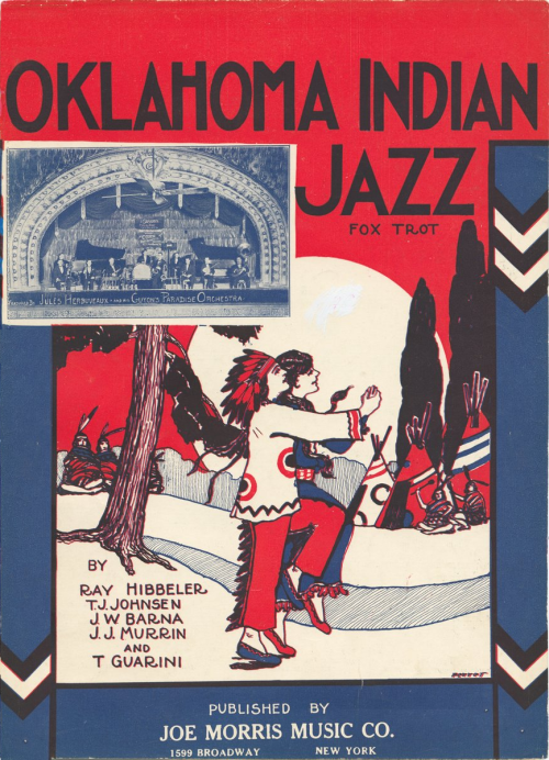 cover of sheet music from Indiana University site.